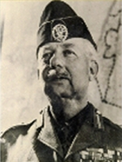 John Glubb portrait